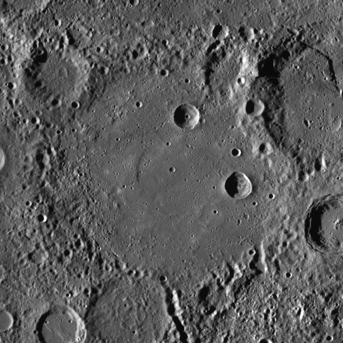 Imhotep crater, on Mercury. MESSENGER Wide Angle Camera mosaic. Image is approximately 230 km wide.